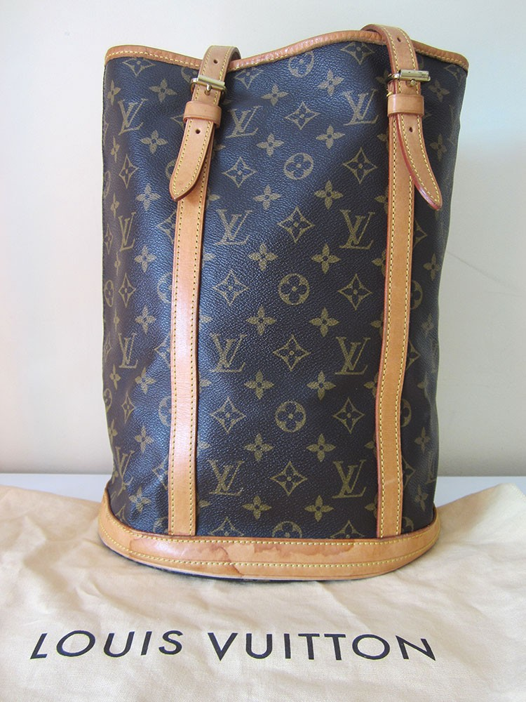 Get the Louis Vuitton Bucket Bag GM from Preowned4u to carry your handy belongings. This large bag is preowned and is in perfect shape and color.